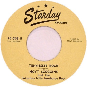 Tennessee Rock by Hoyt Scoggins and the Saturday Nite Jamboree Boys, Starday Records 1956.